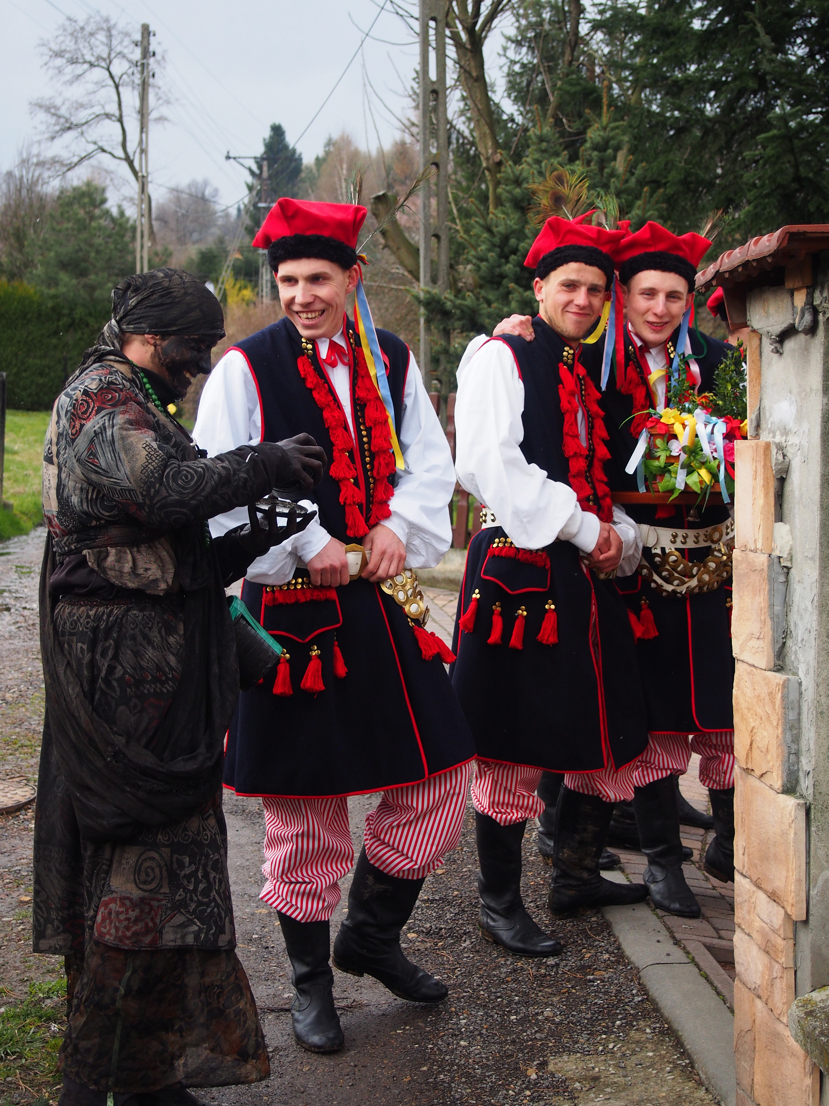 Siuda Baba, Polish folk tradition on Easter Monday, 6th April 2015, Lednica Górna, Poland. The ritual participants dressed up as Siuda Baba and Krakowiaks are waiting for the residents to decide whether to let them in. Siuda Baba prepares for blackening their hands and faces.